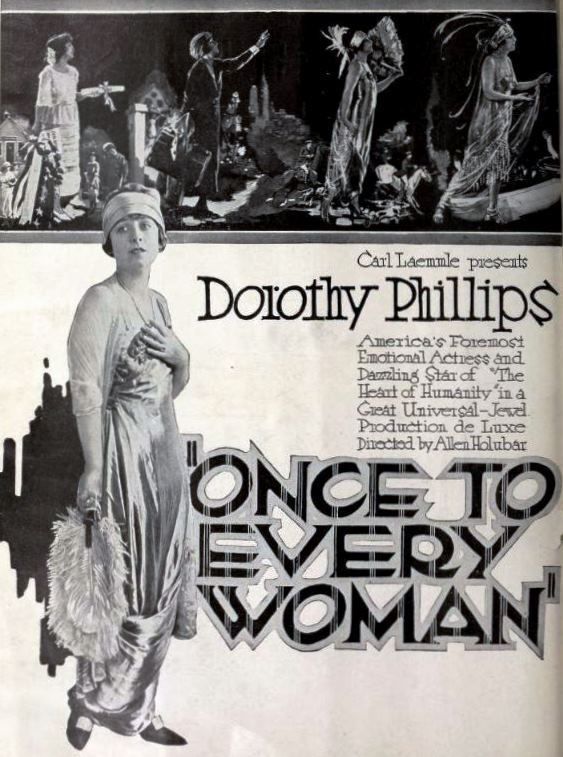 Advertisement for the American film Once to Every Woman (1920) with Dorothy Phillips, on page 2 (inside front cover) of the September 25, 1920 Exhibitors Herald.